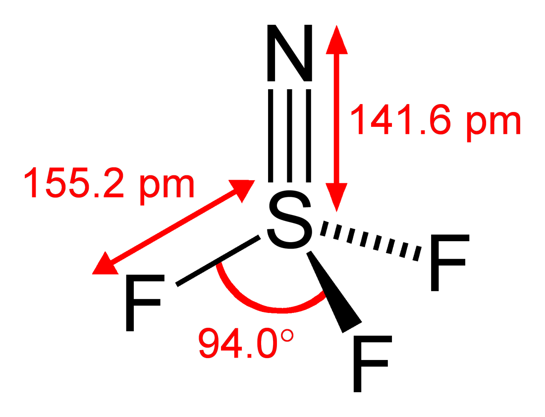 Structural formula, with dimensions, of the thiazyl trifluoride molecule, NSF3